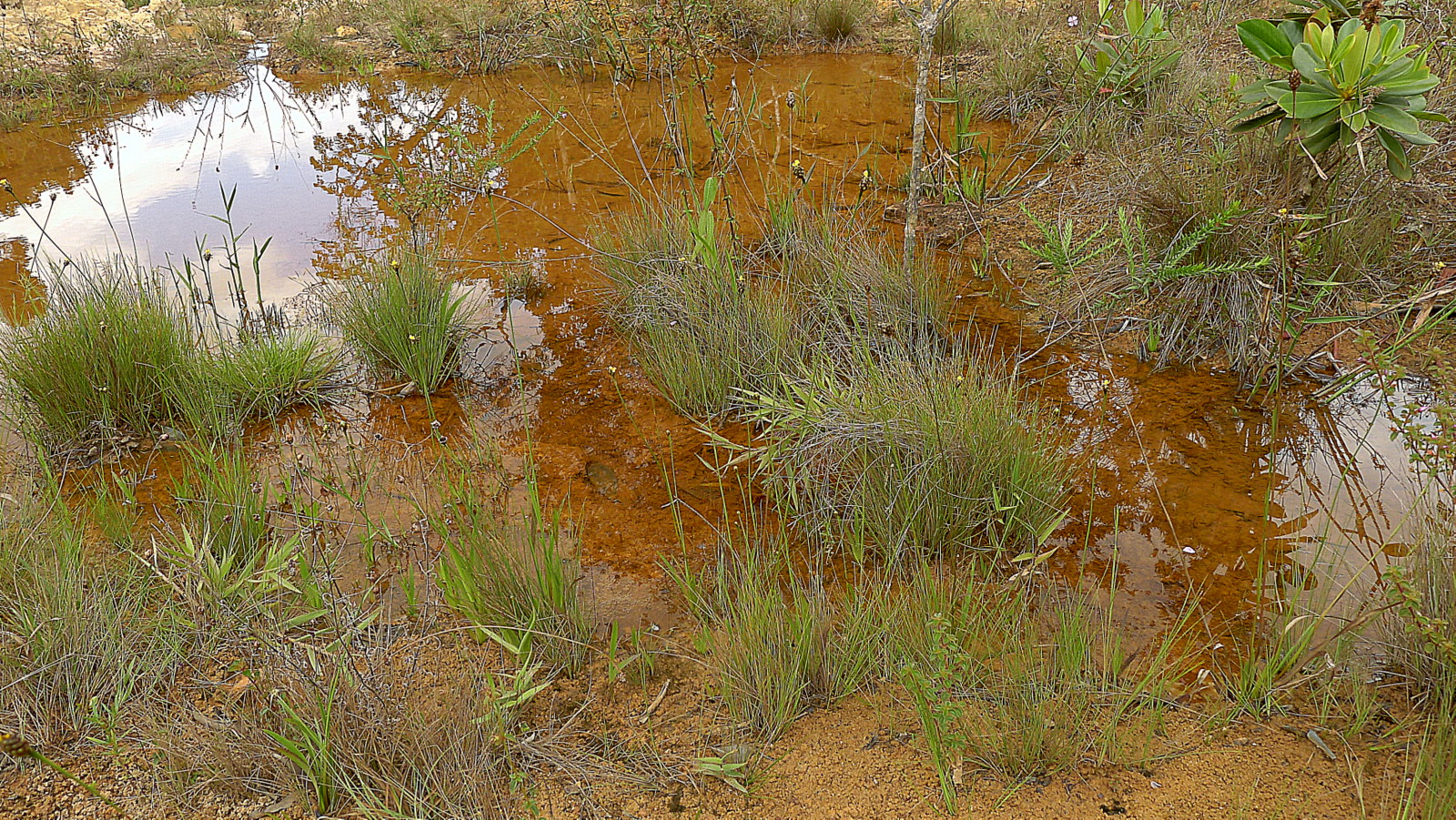 Xyris jupicai Rich., Xyridaceae, Atlantic forest, northeastern Bahia, Brazil Herb to 50 cm. Aquatic environment. Popovkin & Mendes 1258 (HUEFS).